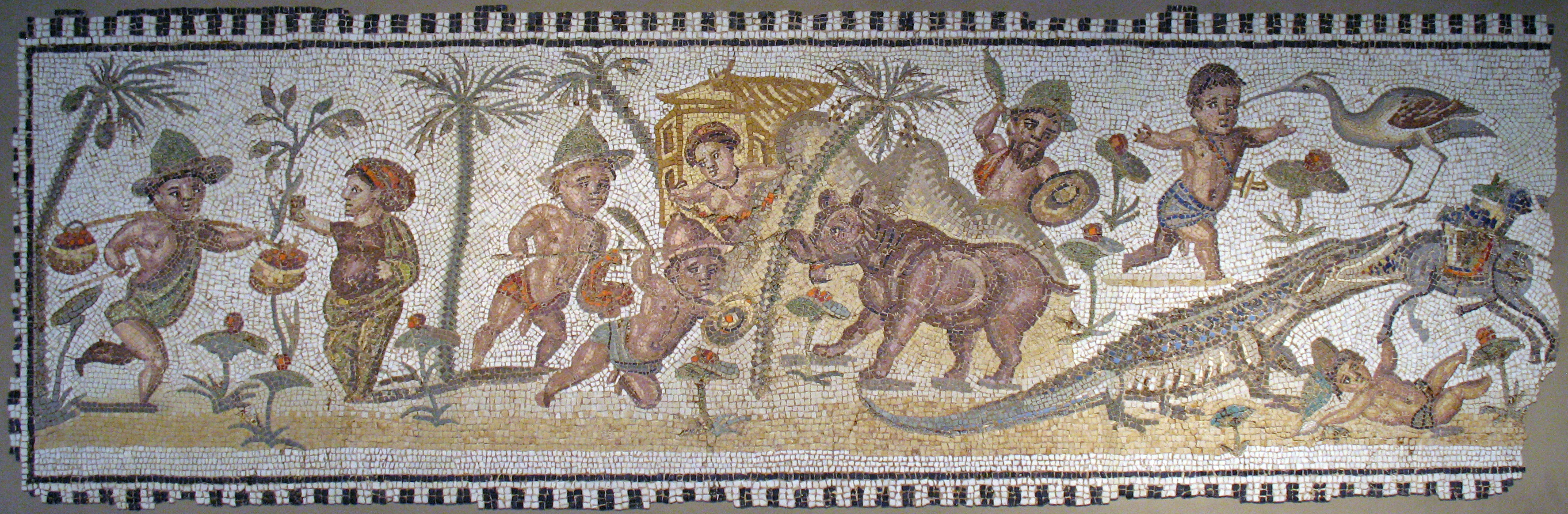 Mosaic Panel with pygmies in a Nilotic scene; Roman, mid-3rd century A.D.; said to be from North Africa; Metropolitan Museum of Art, New York